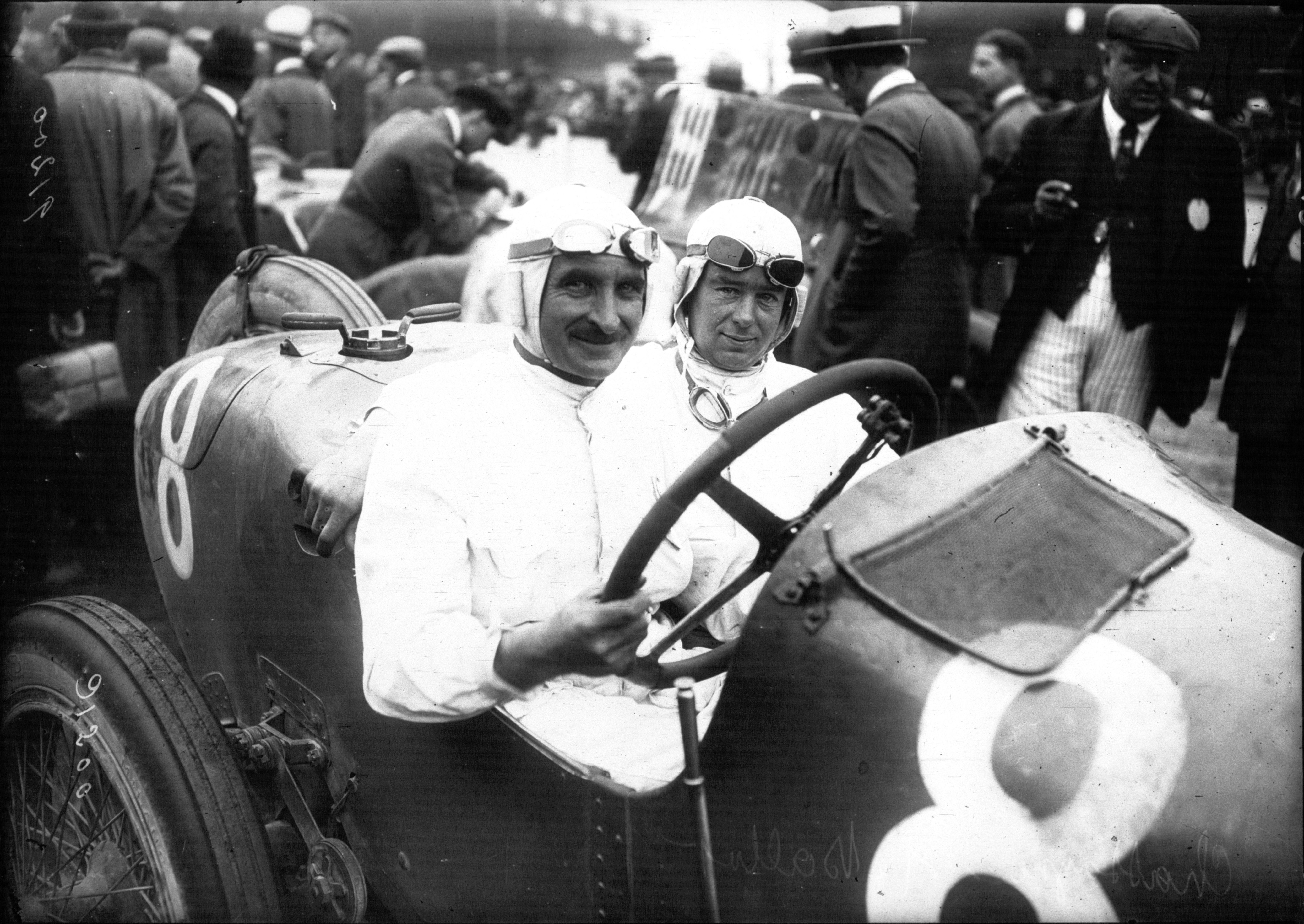 Jean Chassagne at the 1921 French Grand Prix